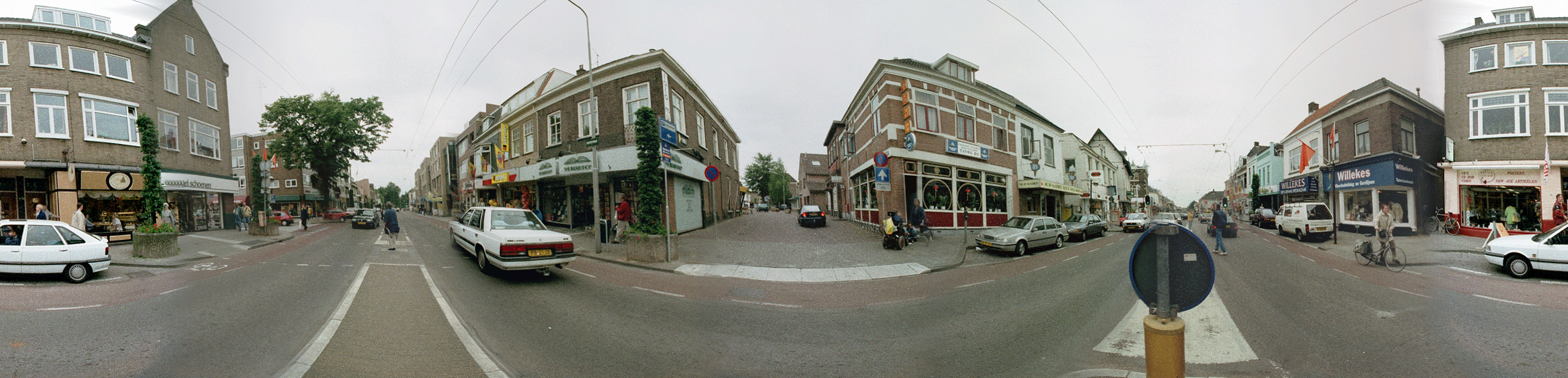 360° panoramic picture taken in the middle of Main Street (Hoofdstraat) in the village of Velp (near the city of Arnhem), in the Netherlands.